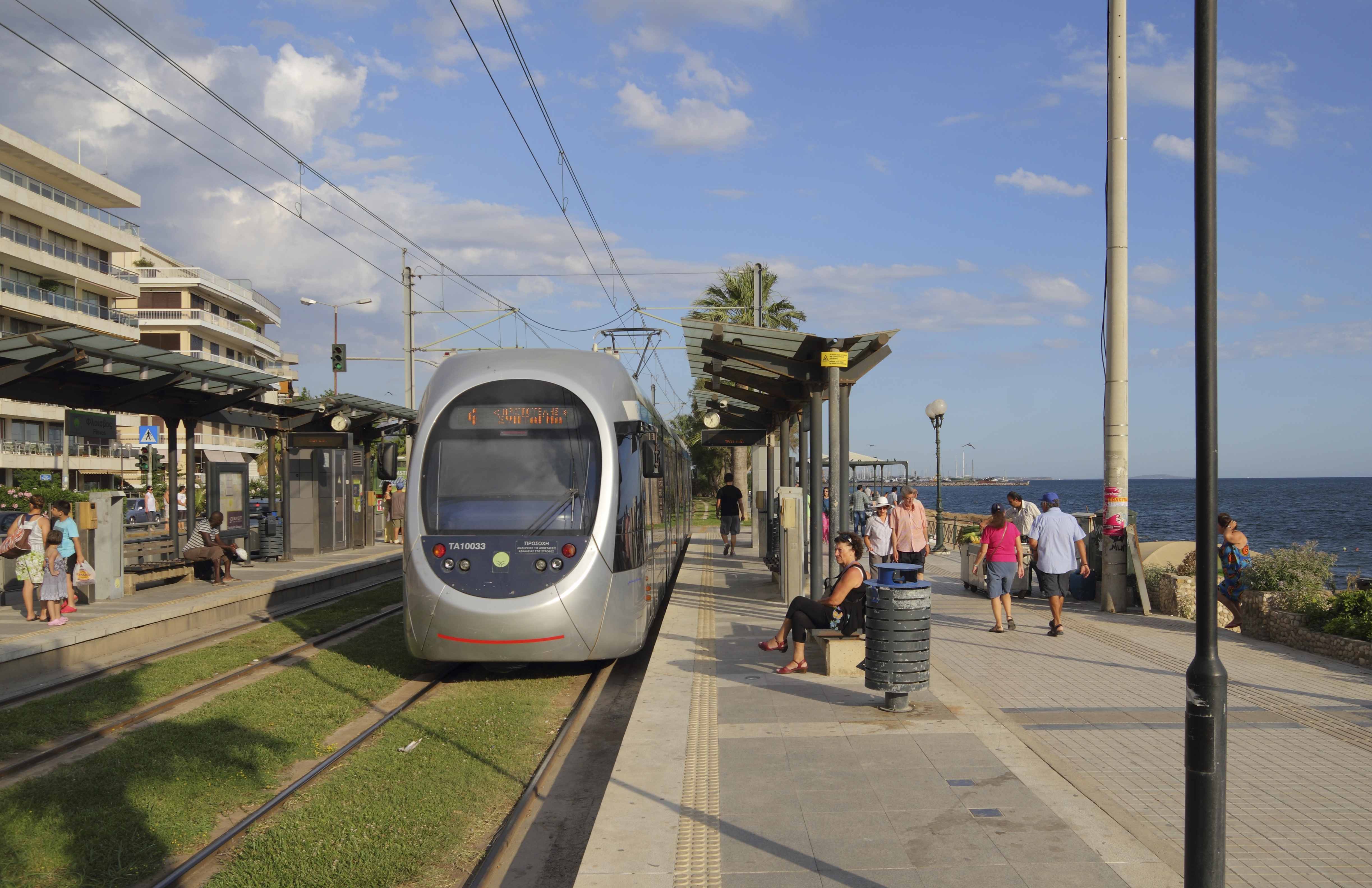 A tram at the stop «Flisvos» in Paleo Faliro (Attica, Greece)